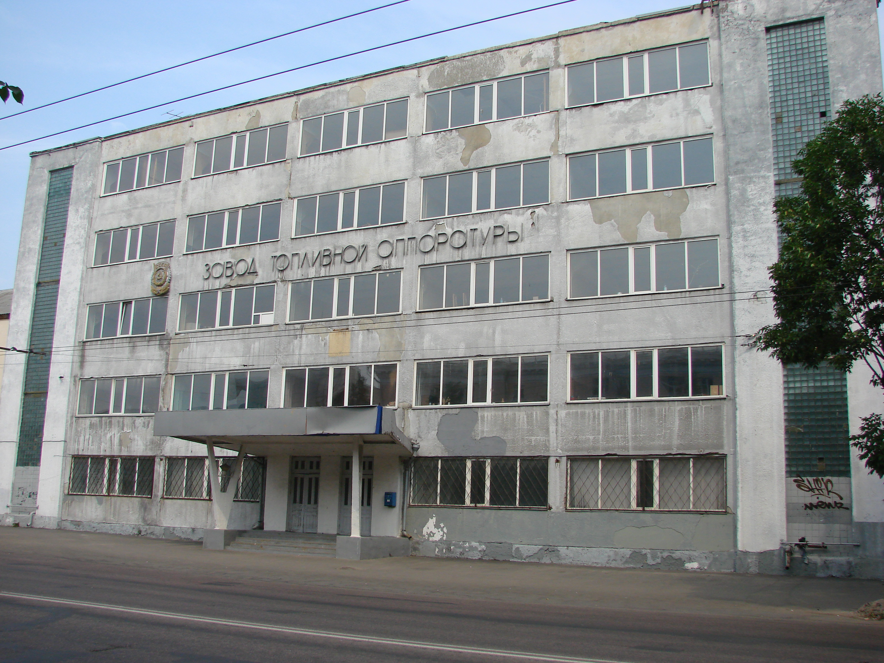 Russia, Yaroslavl, Fuel Equipment Plant